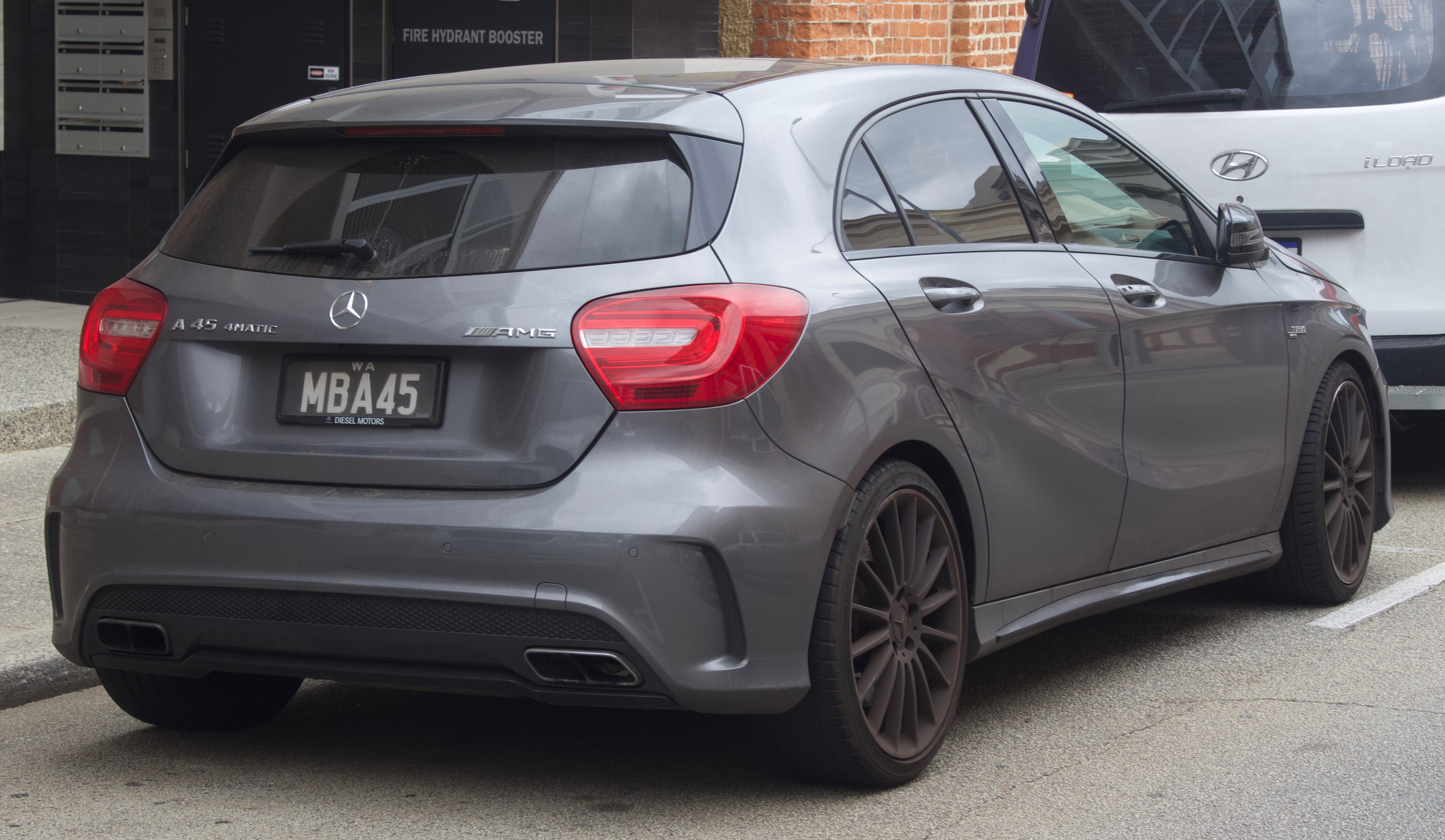 2012-2014 Mercedes-Benz A 45 AMG (W 176) 4MATIC hatchback. Photographed in Fremantle, Western Australia, Australia.